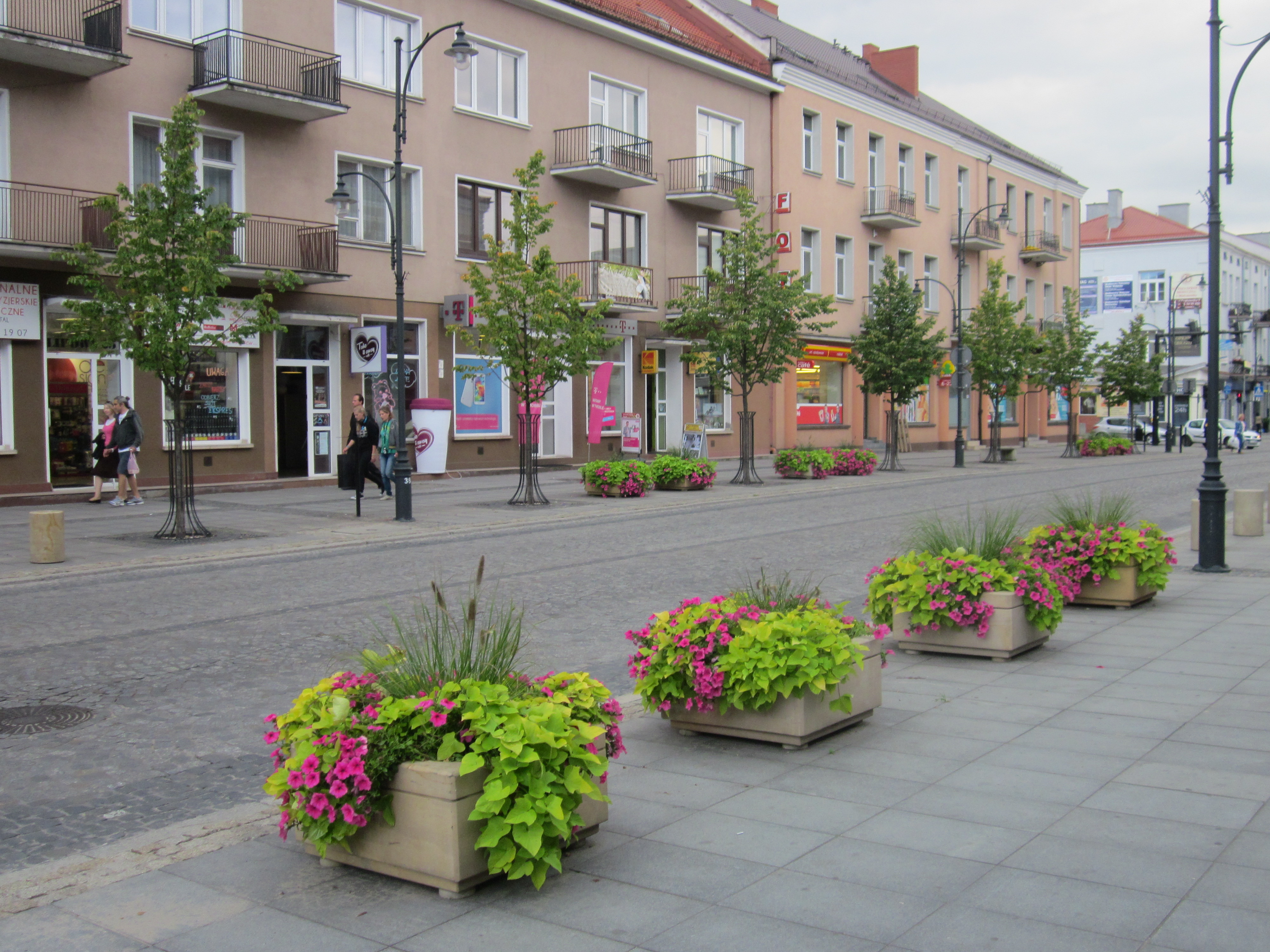 Linden avenue along Lipowa Street in Białystok. 790 m long between Rynek Kościuszki and Niepodległości Square.